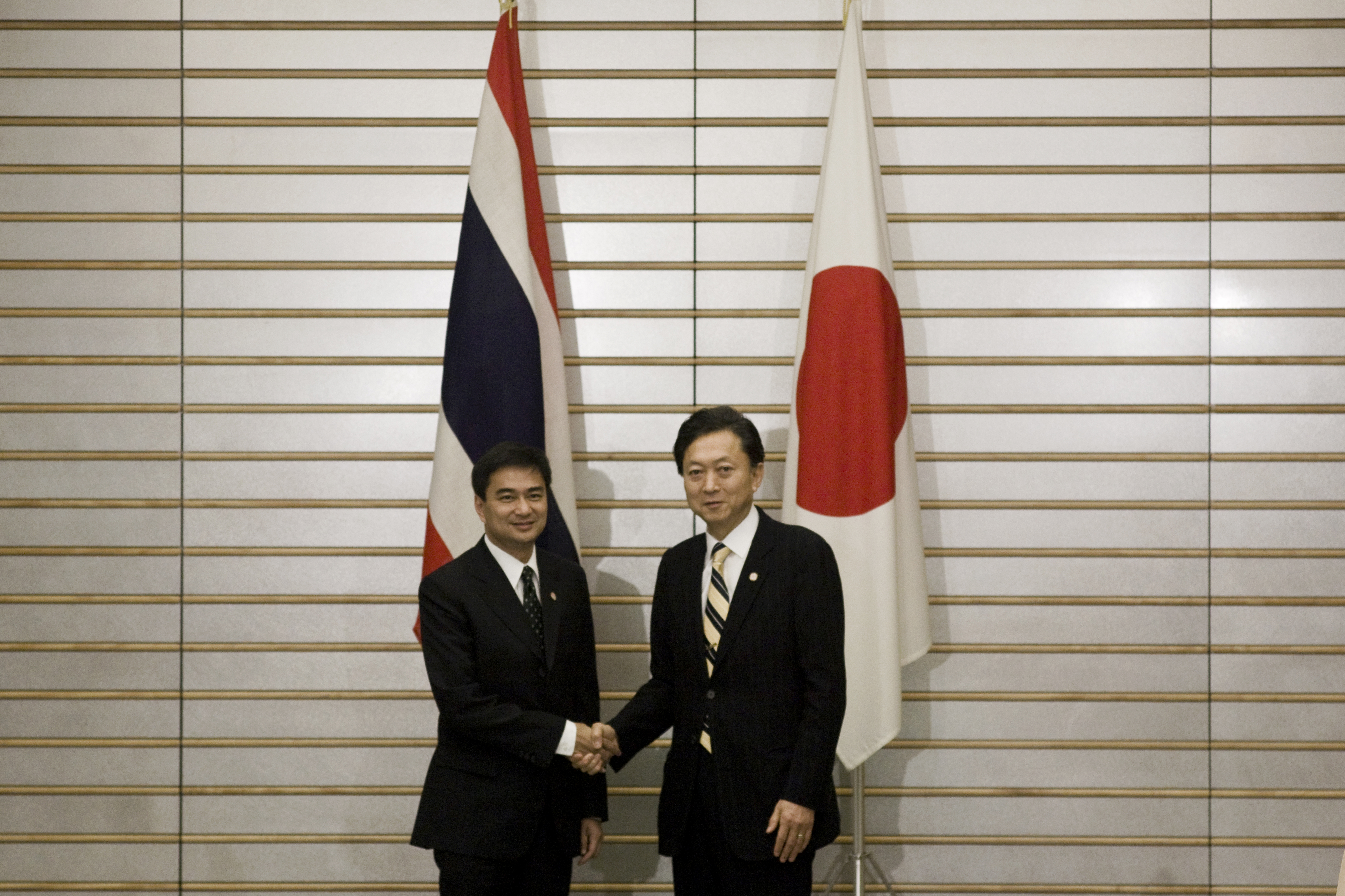 Abhisit Vejjajiva, Prime Minister, shaked hands with Yukio Hatoyama, Prime Minister, at the Kantei in Chiyoda Ward, Tōkyō Metropolis on November 8, 2009.